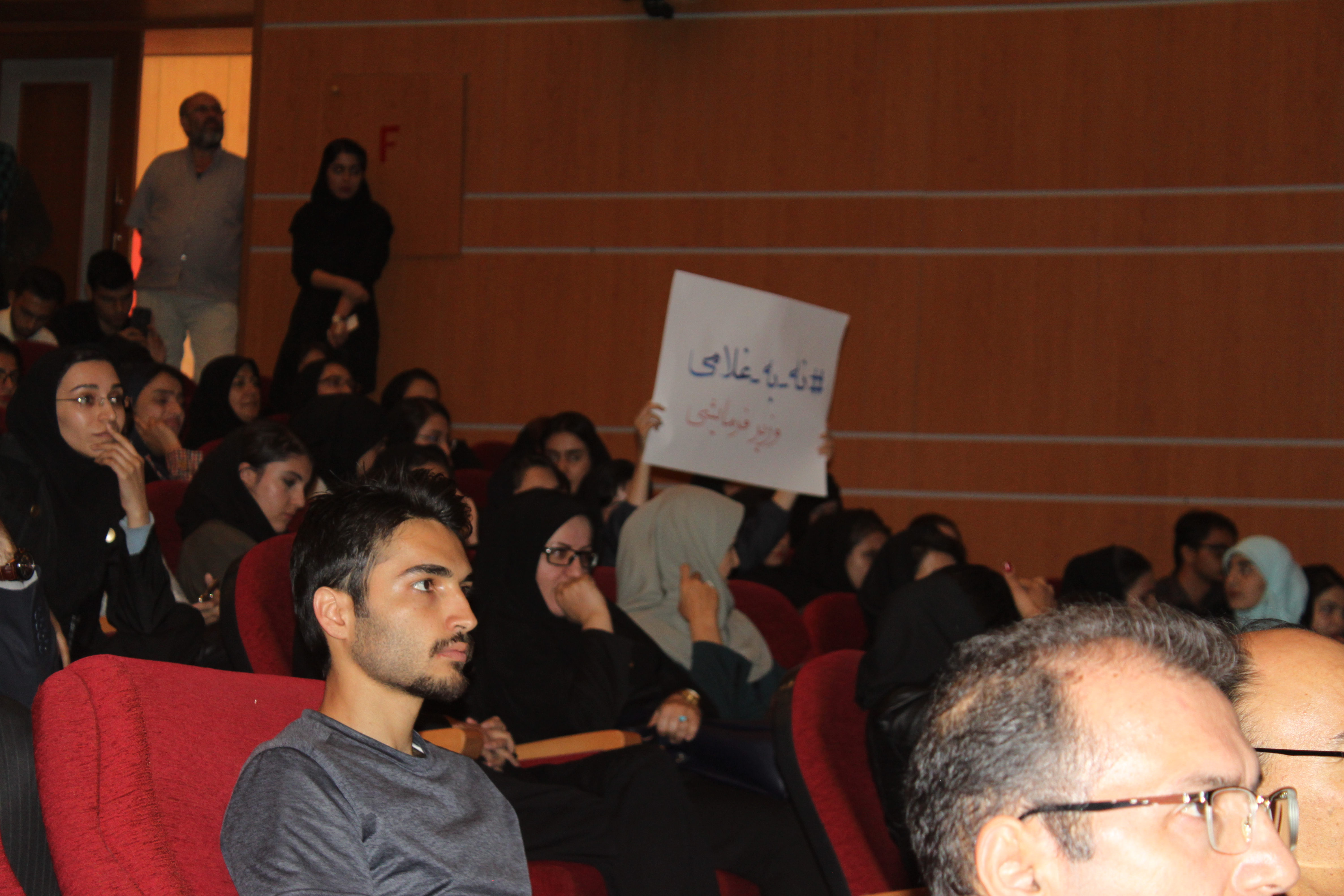 Political debate in Zanjan university between Sadegh Zibakalam and Gholamreza Mesbahi-Moghadam about Political power structure in Iran.